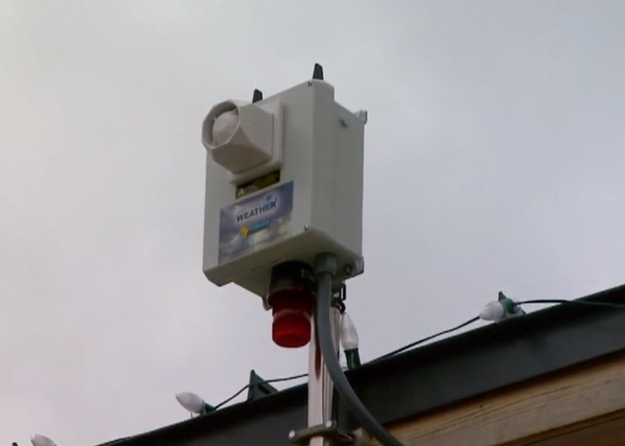 iStrike Lightning Siren System w/ Strobe currently in use in Noblesville, IN